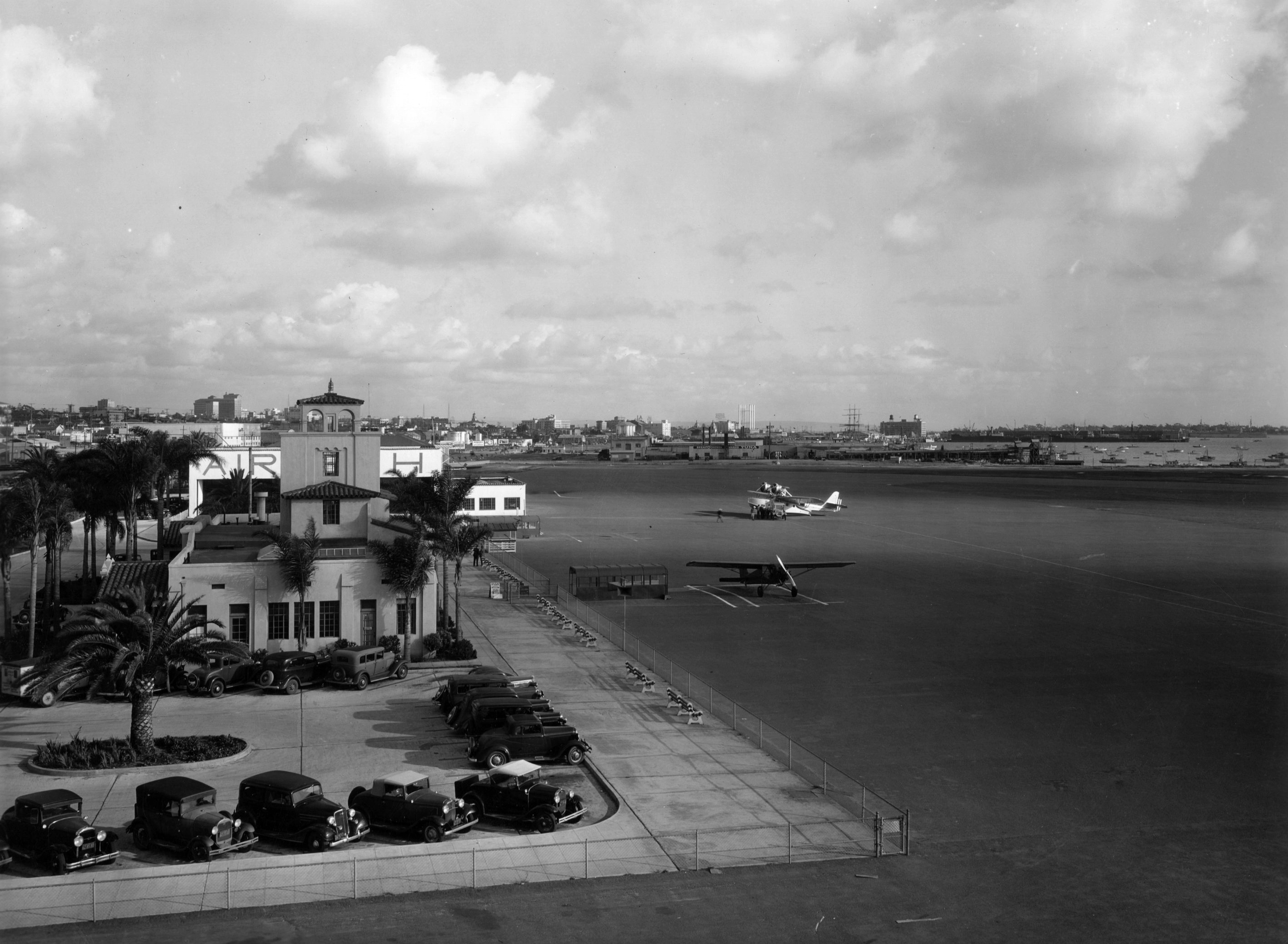 View of the U.S. Coast Guard Air Station San Diego, California (USA), adjacent to the Lindbergh Field Municipal Airport, circa 1938. Note the Douglas RD Dolphin in the center of the photograph.